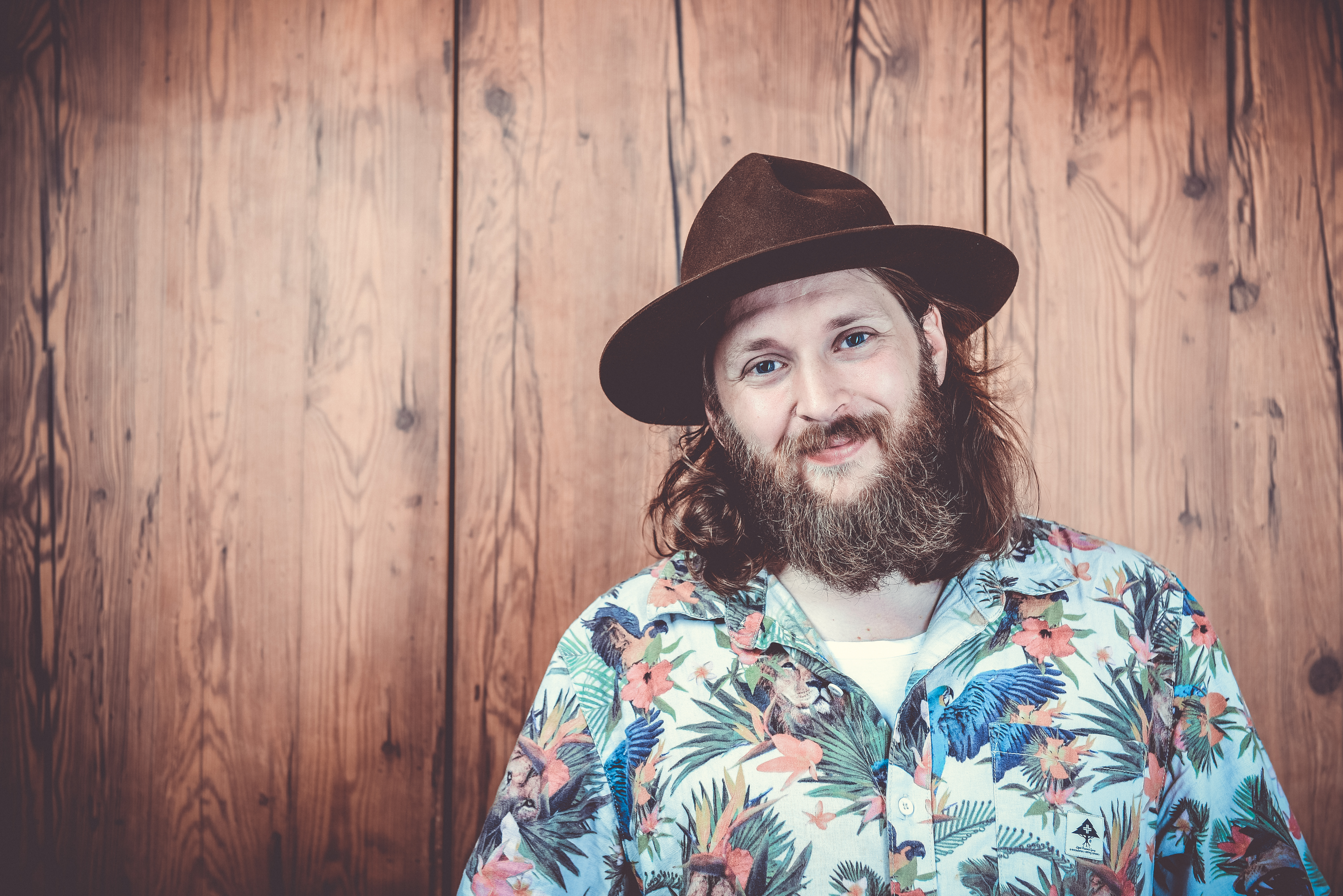 Shooting picture from Max Hartl